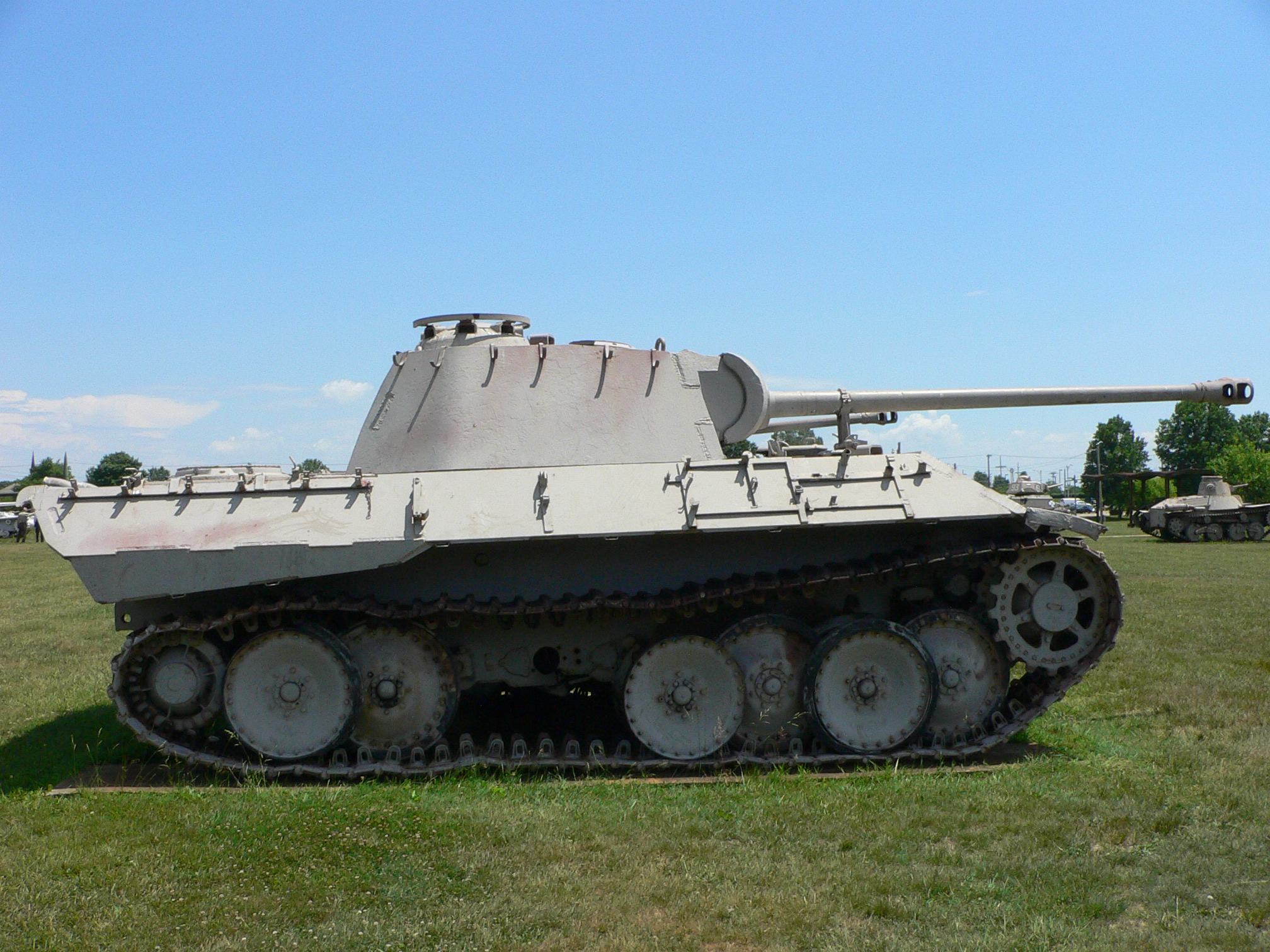 Picture taken by myself, Mark Pellegrini, at the United States Army Ordnance Museum (Aberdeen Proving Ground, MD) on June 12, 2007.